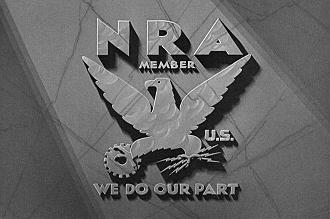 From the 1934 film Woman Haters, shrunk about 50 percent from the original on the DVD.